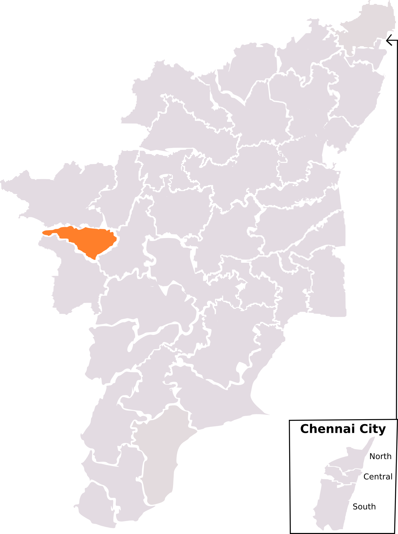 Lok Sabha Election map labeling each constituency for individual pages for Tamil Nadu after delimitation starting 2009 election. Map is based on ECI drawn map from